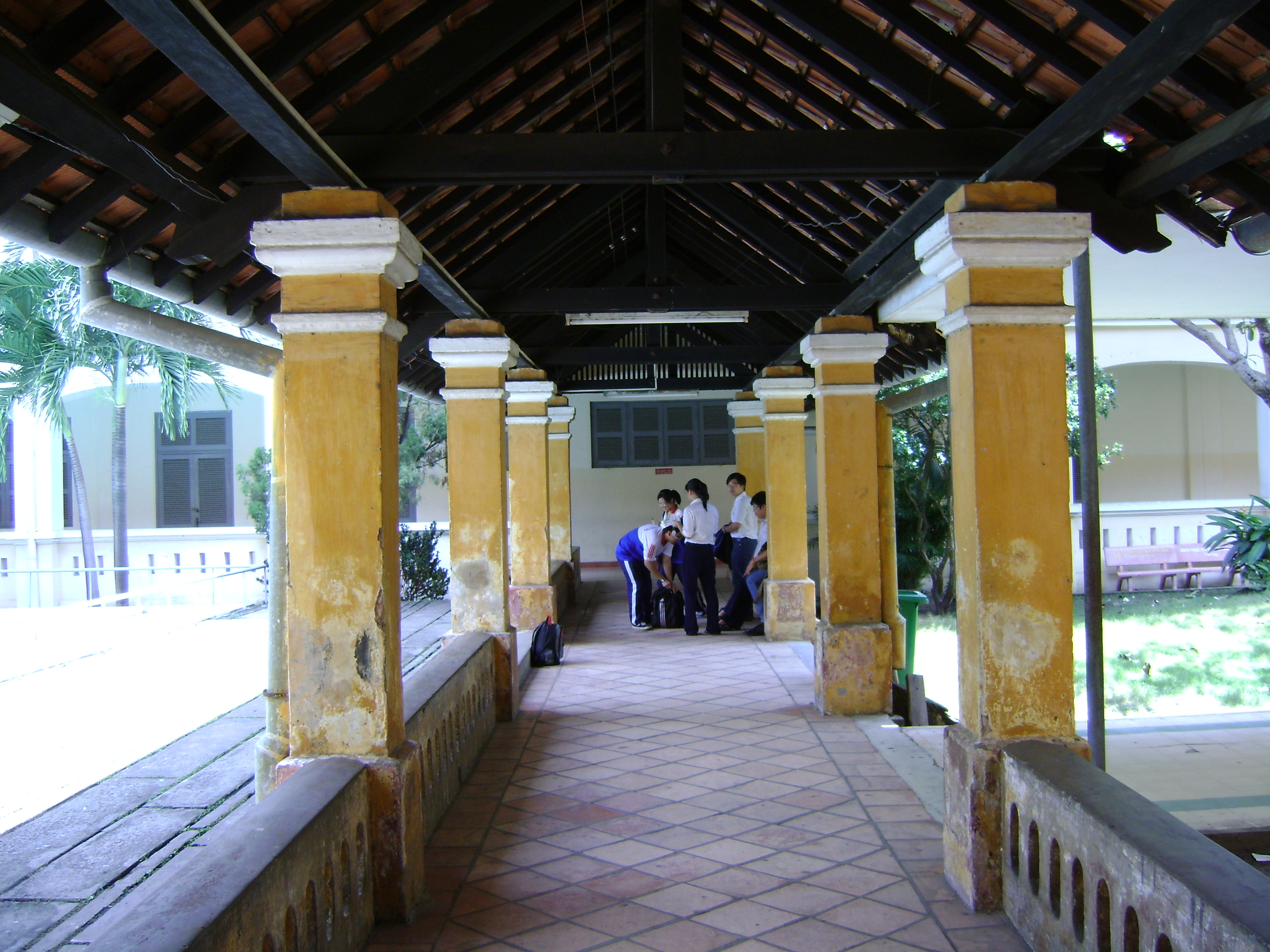 It's the walk in the Nguyễn Thị Minh Khai High School connecting the new building with the old one, which was build by VVOB Project near 2000. Bức hình trên chụp cảnh lối đi được xây dựng nối liền dãy học cũ (B) với dãy học B mới, sát đường Ngô Thời Nhiệm. Được dự án VVOB của Bỉ tài trợ chủ yếu, khu này được xây dựng vào khoảng năm 2000 (mình không biết rõ, do là học sinh 2005-2008). Sát bên trái lối đi (theo hình vẽ) là hồ bơi, bên phải là thư viện hiện đại, mô phỏng theo kiểu thư viện các trường đại học với hệ thống sách, báo, tạp chí và hệ thống mạng Internet (25-26 máy) tốc độ trung bình. Nhìn theo hướng lối đi, phòng đầu tiên là phòng bộ môn Lý (chủ yếu học lý thuyết và xem phim).